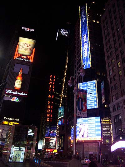 Times Square at night, New York City Personal snapshot by Montréalais.